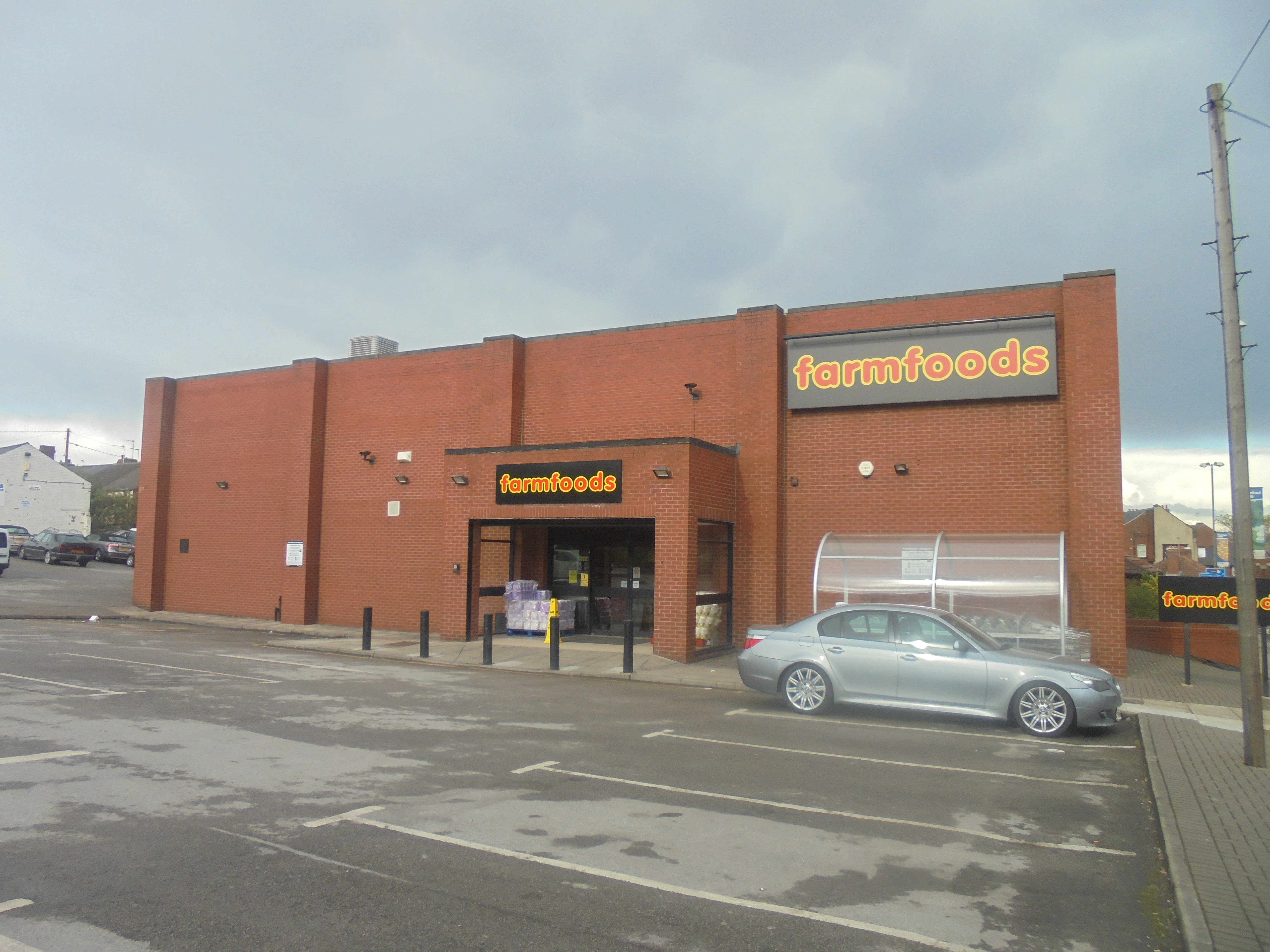 Farmfoods, Micklegate, Pontefract, West Yorkshire. Taken on the afternoon of Thursday the 25th of April 2019.